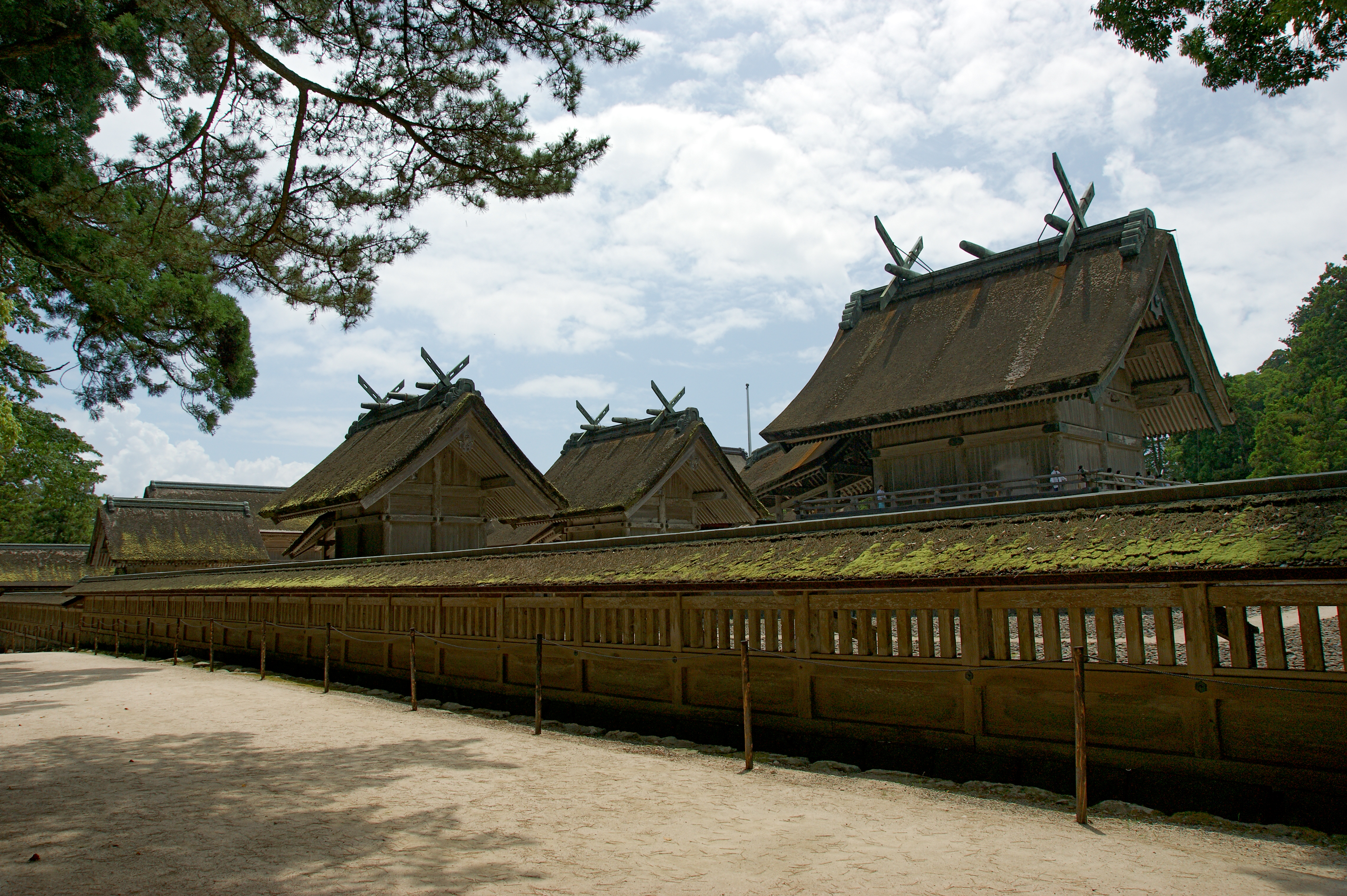 Izumo Taisya, Izumo, Shimane prefecture, Japan